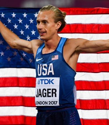 Evan Jager in London, 2017